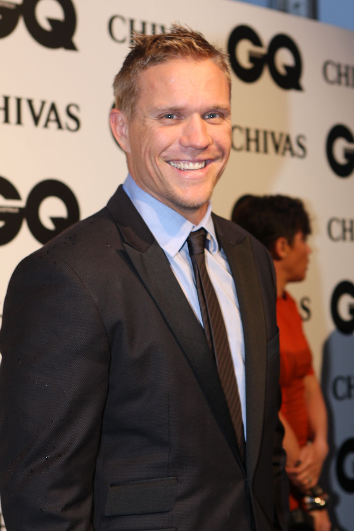 Conrad Coleby at GQ Men Of The Year Awards 2011